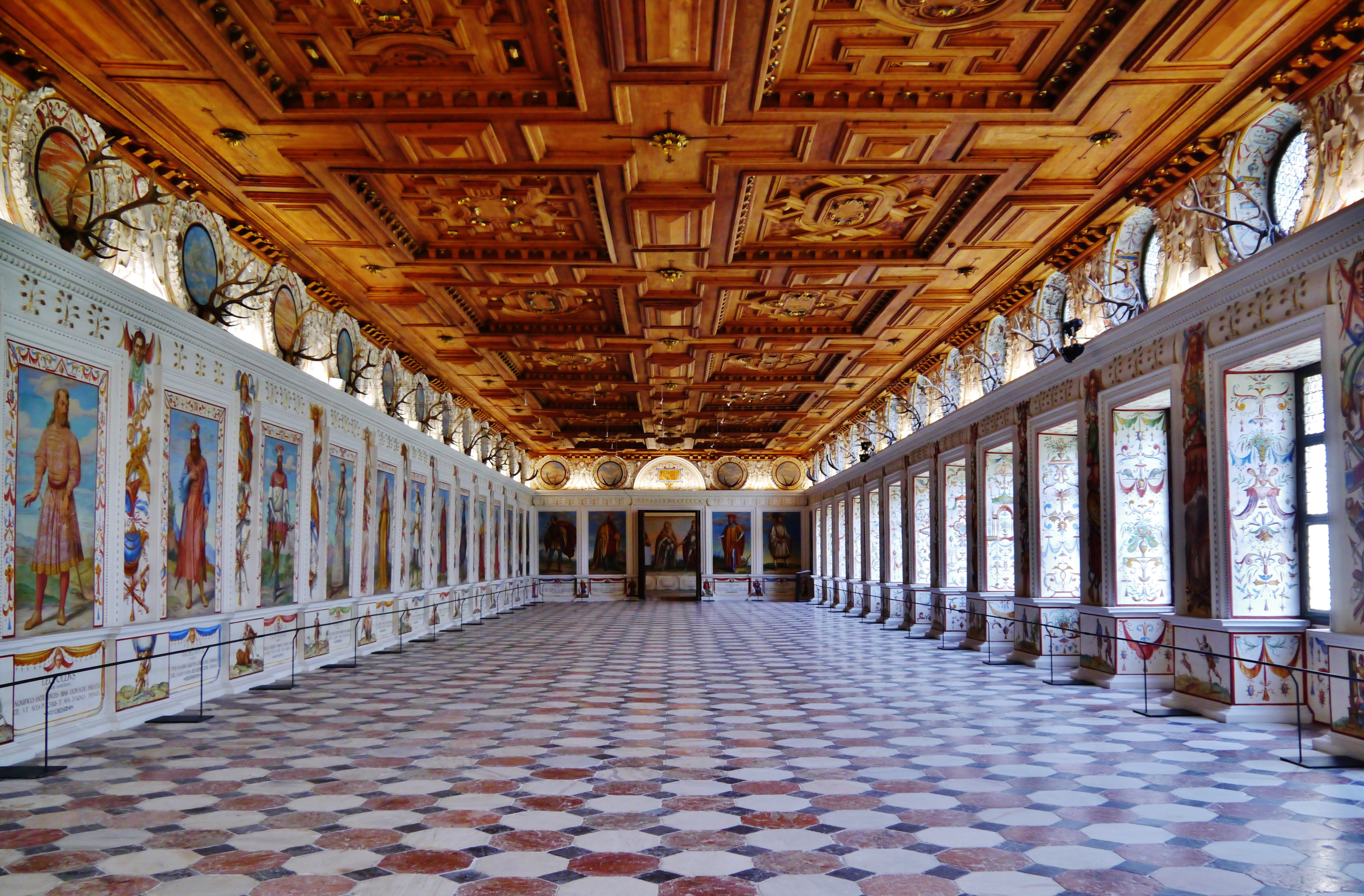 Spanish Hall of Ambras Castle, Innsbruck, Tyrol, Austria